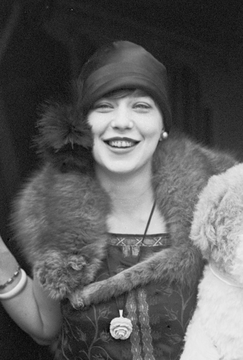 Edna Wallace Hopper